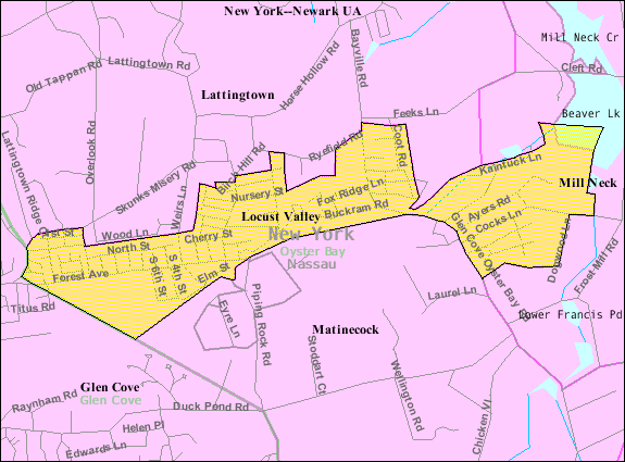 U.S. Census 2000 reference map for Locust Valley, New York